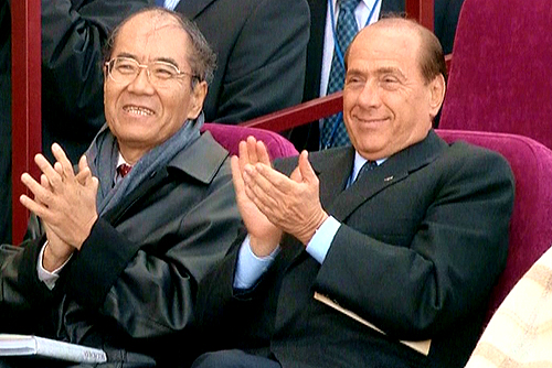 STRELNA. Italian Prime Minister Silvio Berlusconi and UNESCO Director General Koichiro Matsuura attending a concert during the opening of the Constantine Palace in Strelna.